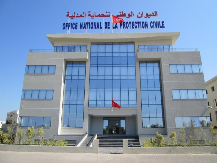 National Office of Civil Protection - Tunisia